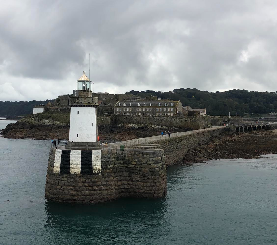 Castle Breakwater Saint Peter Port Harbor Guernsey